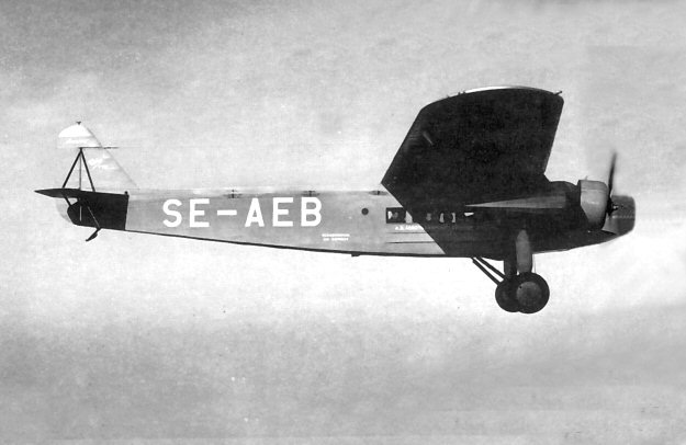 Fokker F.VIII from Swedish airliner ABA